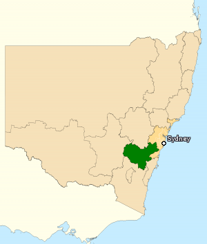 Incorporates or developed using Administrative Boundaries ©PSMA Australia Limited licensed by the Commonwealth of Australia under Creative Commons Attribution 4.0 International licence (CC BY 4.0). Derived from State and Territory Boundaries from the Australian Bureau of Statistics under Creative Commons Attribution 2.5 Australia license (CC BY 2.5 AU)